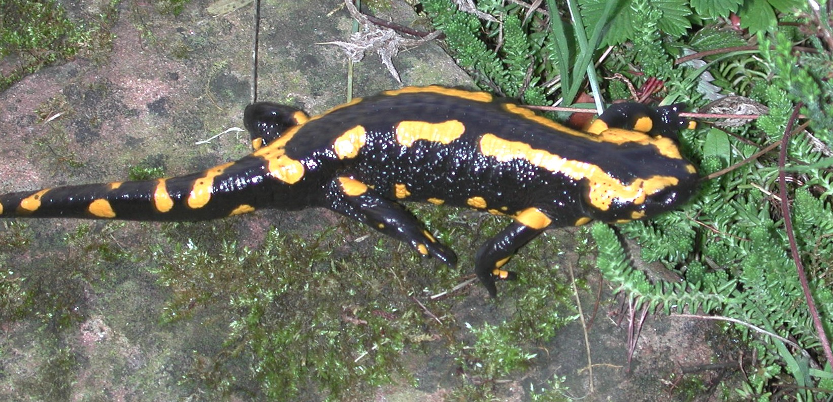 (Salamandra salamandra), – Barred fire salamander in typical locomotion